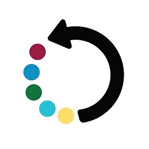 CS Network Logo 2020